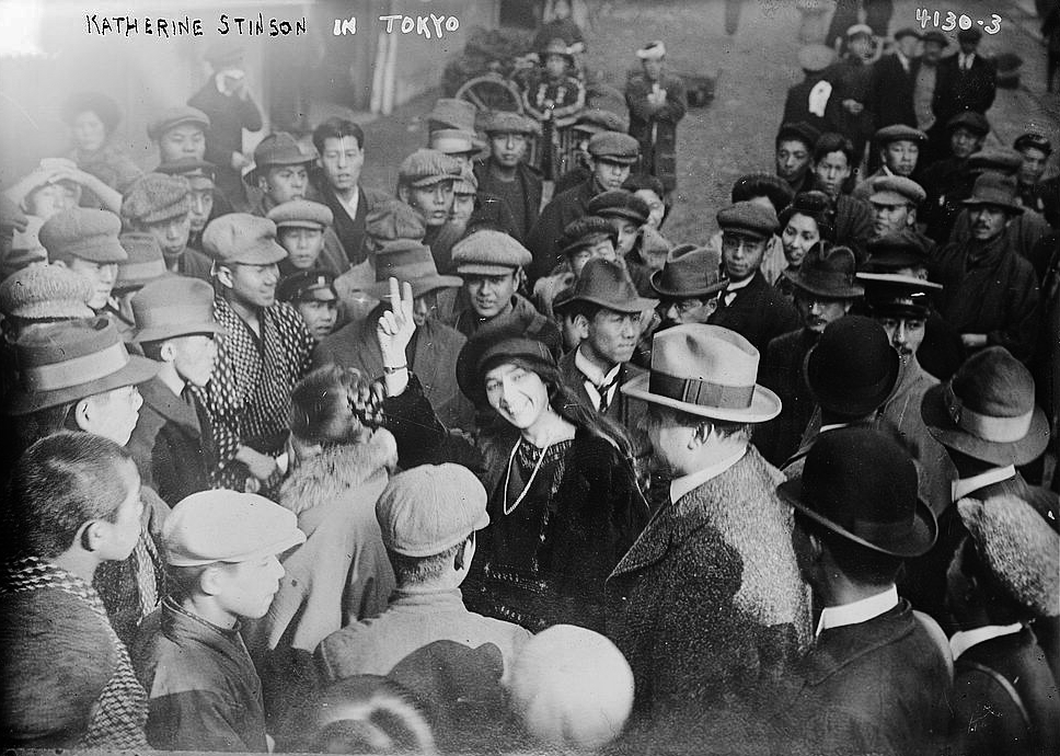 Katherine Stinson in Tokyo.